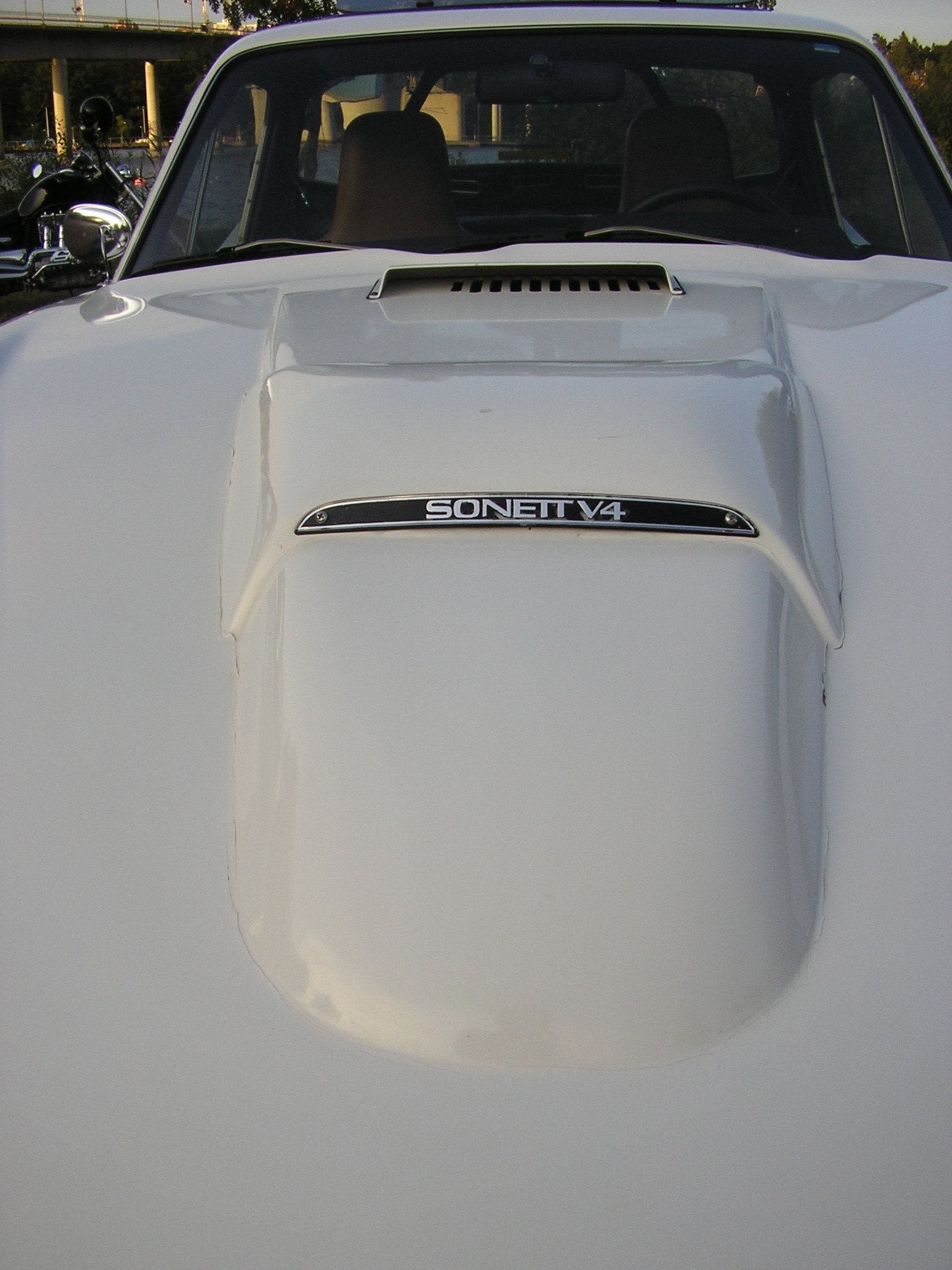 Power bulge on a SAAB Sonett mk2 V4. Photographed by myself at Brostugan outside Stockholm.